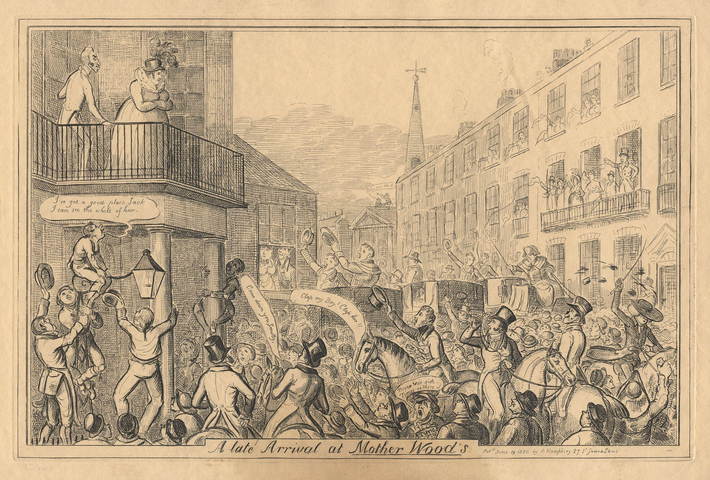 A late Arrival at Mother Wood's (Sir Matthew Wood, 1st Bt; Caroline Amelia Elizabeth of Brunswick) Etching, possibly by (Isaac) Robert Cruikshank, published by George Humphrey 19 June 1820 All images in this batch have been confirmed as author died before 1939 according to the official death date listed by the NPG.